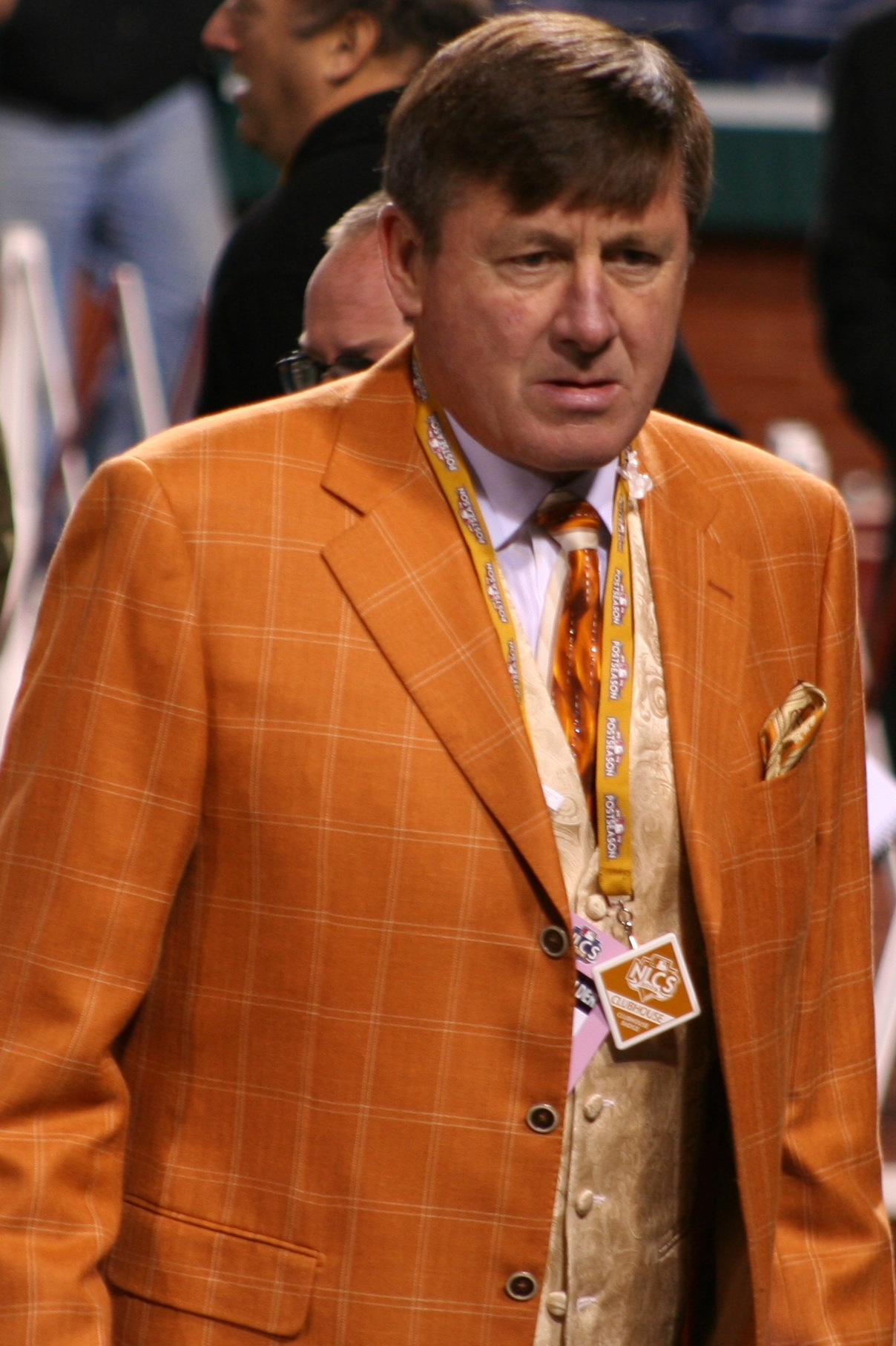 Craig Sager at the 2009 NLCS.